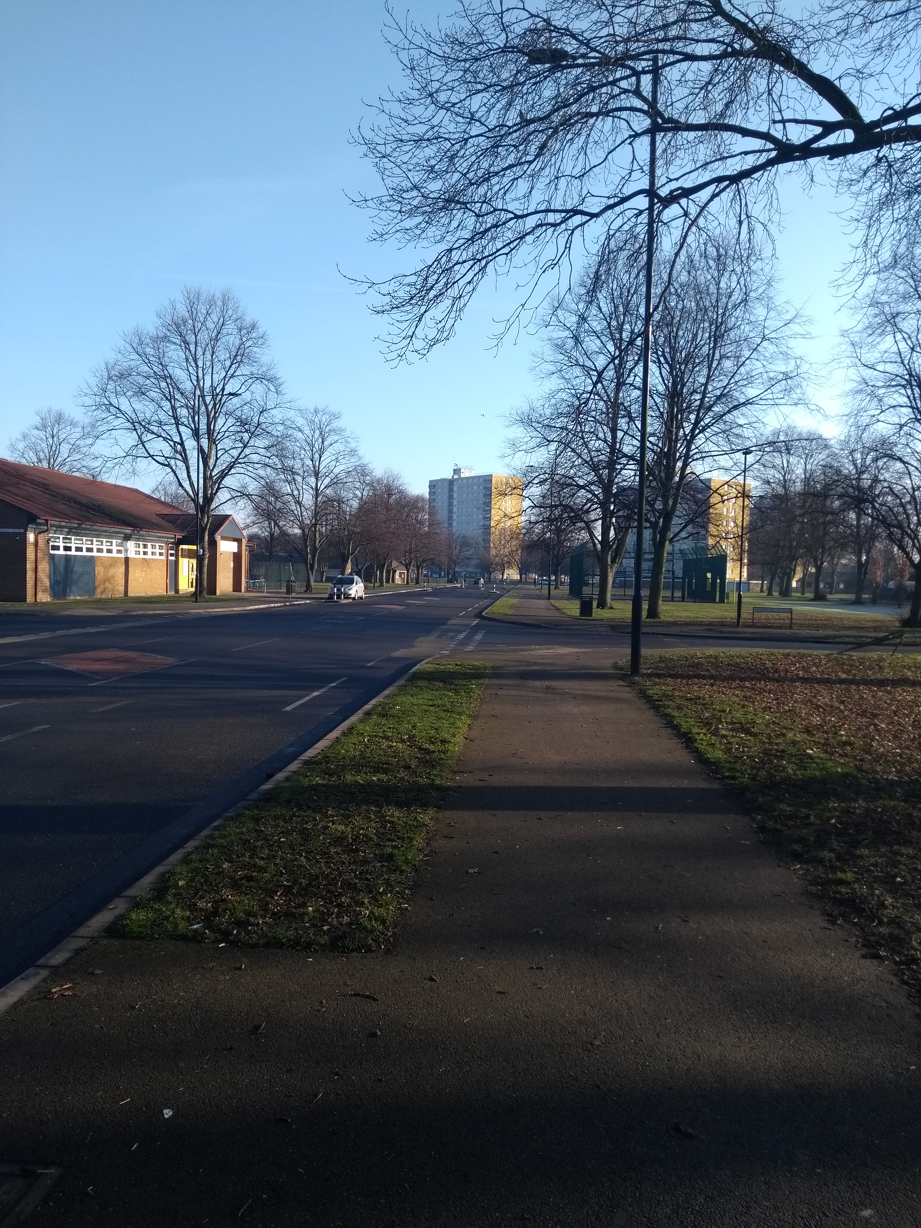 Library and flats